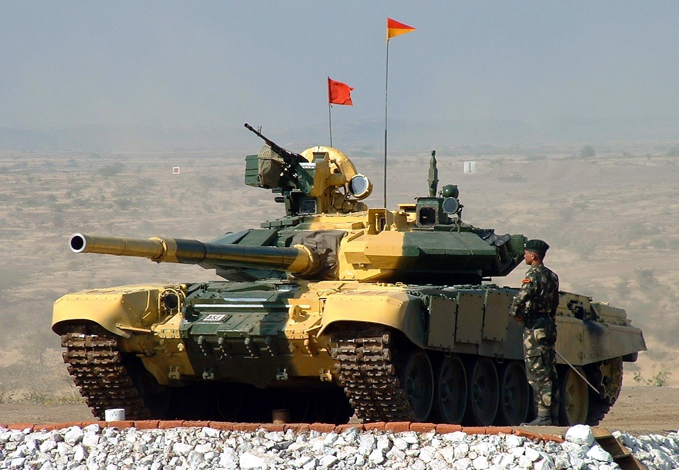 Indian Army Armoured Corps T-90 main battle tank (Original caption: Pic from the Armoured Corps firepower demo I saw in Jan '06. T90S 'Bhishma' Main Battle Tank on an elevated platform being introduced to the audience.)